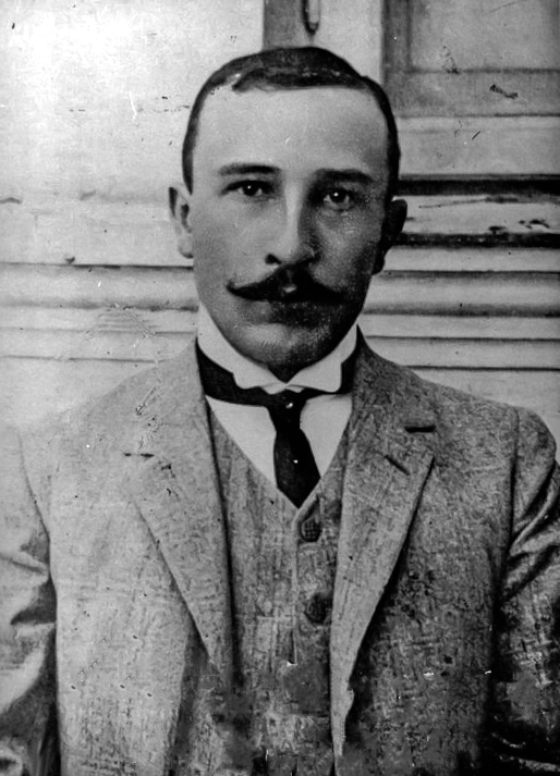 Boris Savinkov (Photo from the archive of the Police Department).